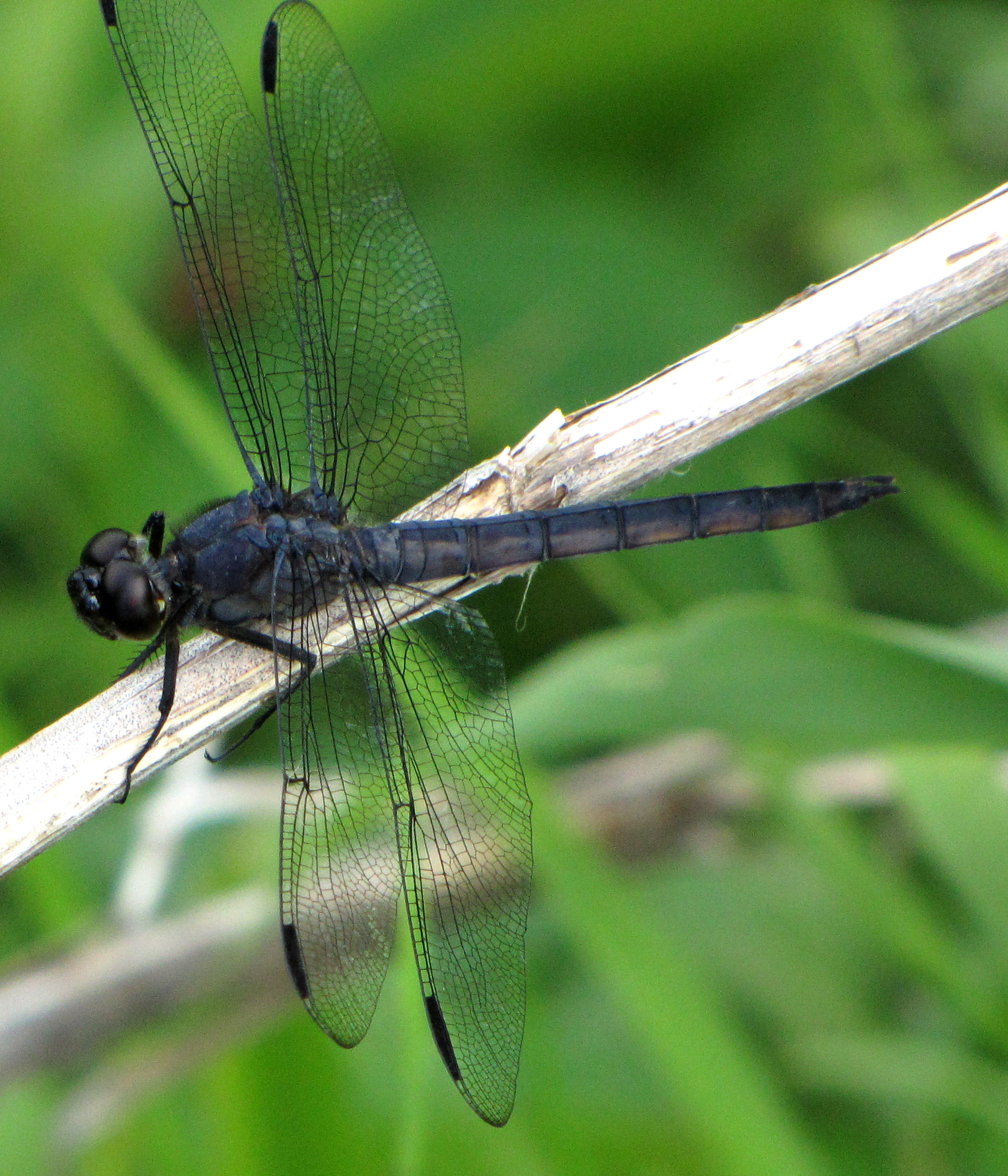 Slaty Skimmer (Libellula incesta), male, Ottawa, Ontario, Canada